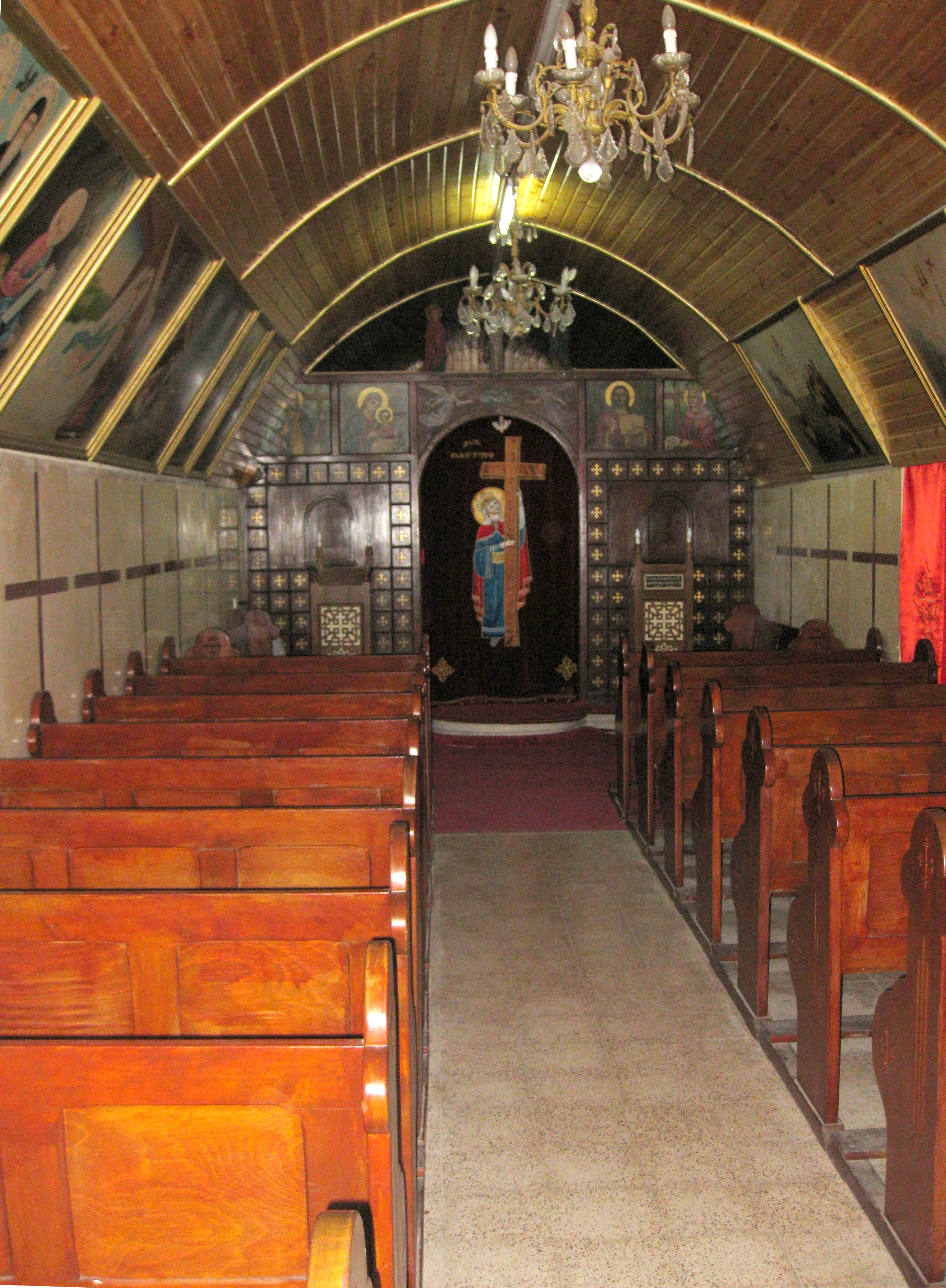 Old Jerusalem, The Christian Quarter - Queen Helen Coptic Orthodox Church